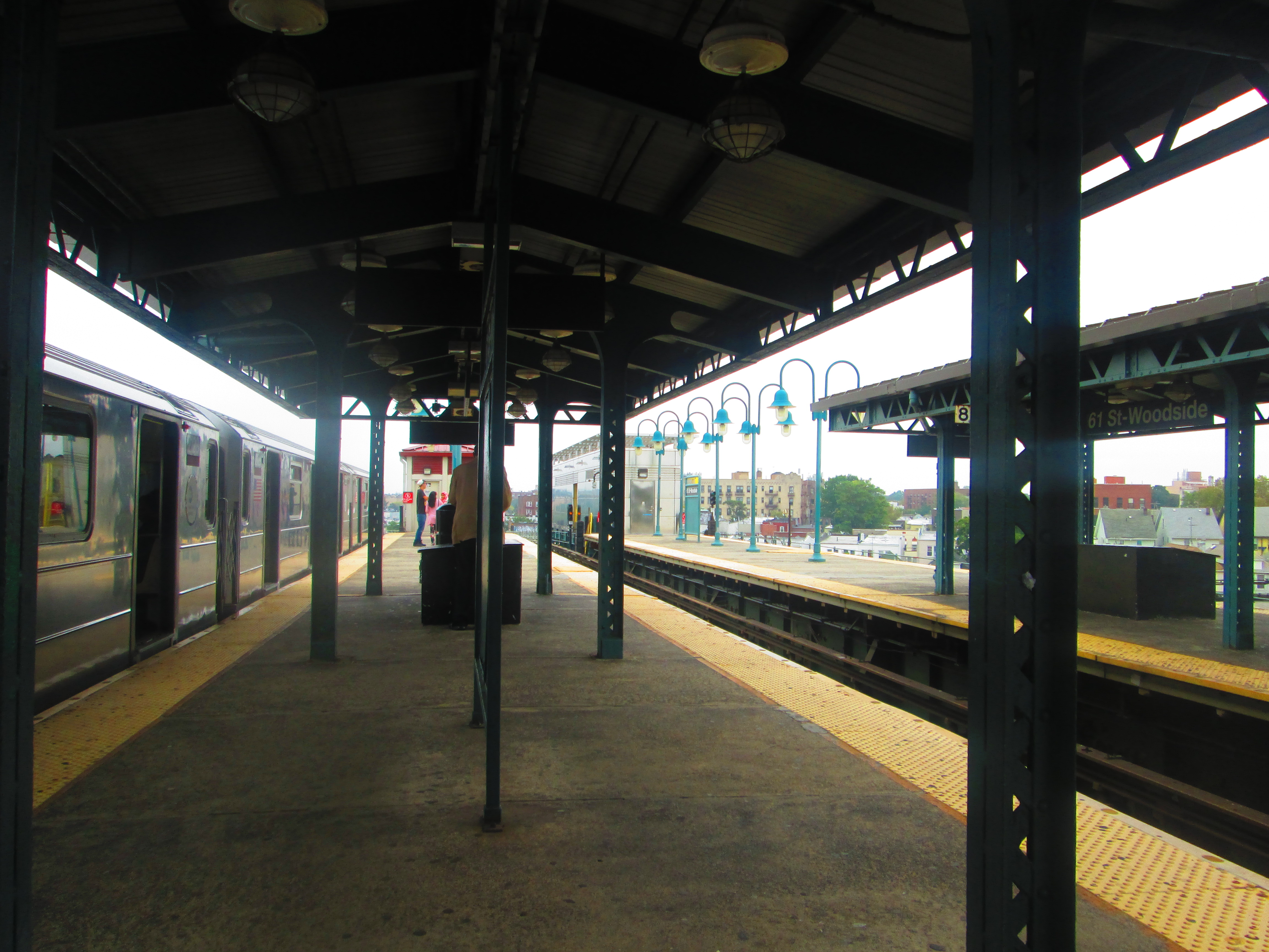 Woodside, Queens, New York